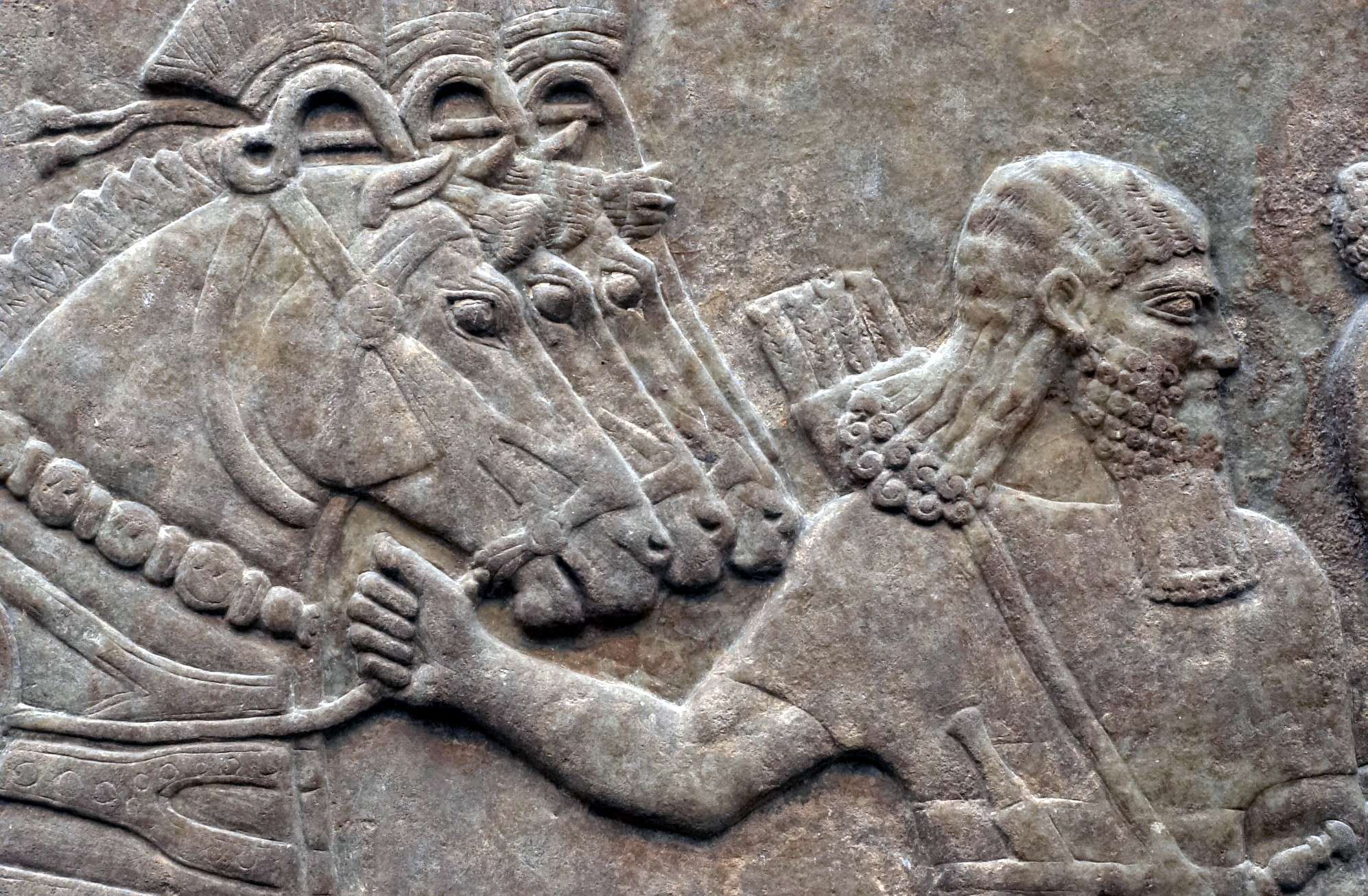 Assyrian art work from 9th century BC at British Museum.